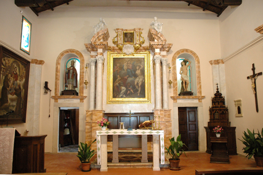 Presbytery of the Church of Saints Fabiano and Sebastian, Fiamognano, Italy